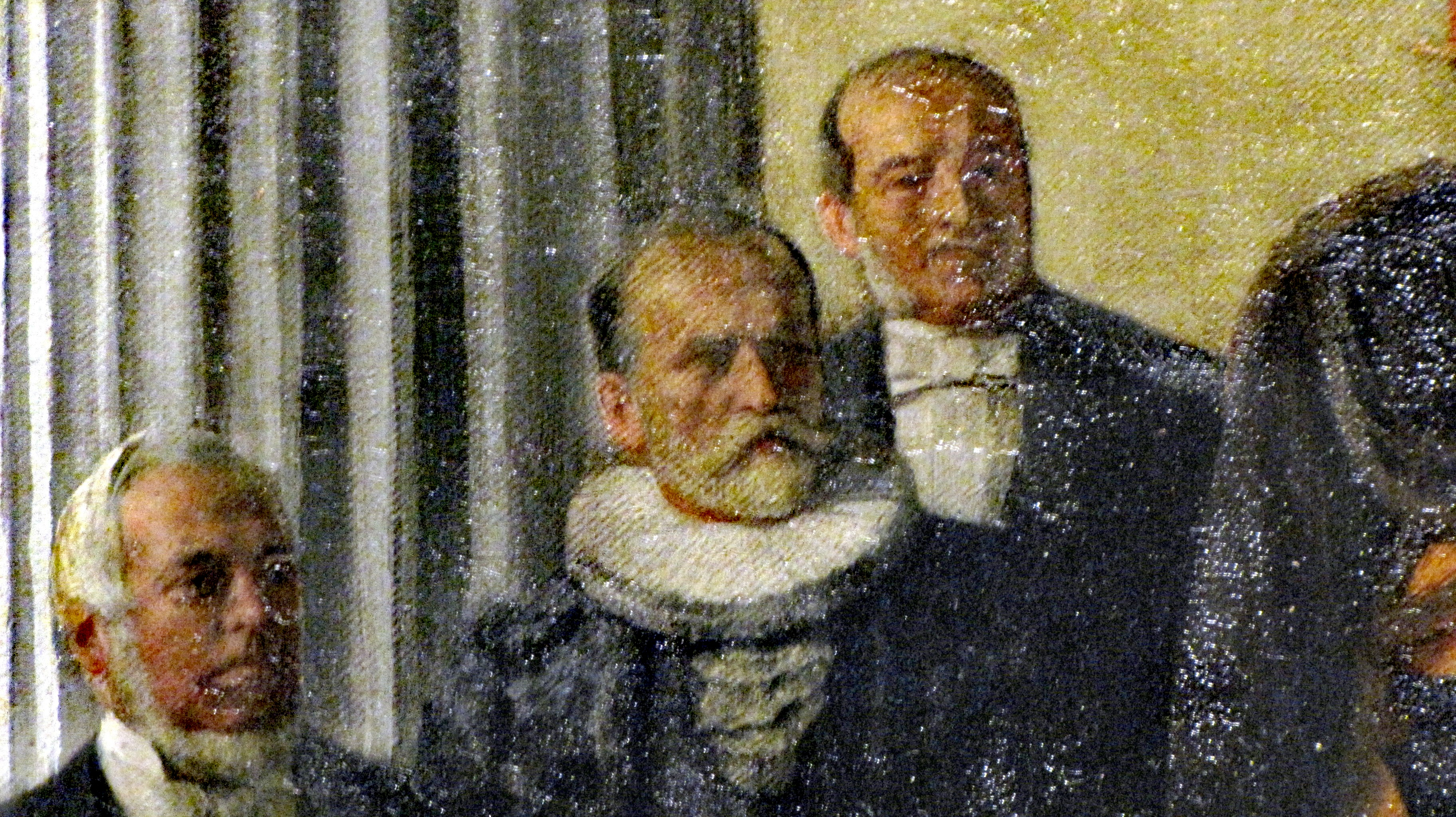 The mayors of the three Hanseatic Cities: left to right Carl Friedrich Christian Buff (Bremen), Johannes Versmann (Hamburg), Heinrich Theodor Behn (Lübeck); Detail of Anton von Werner: Die Eröffnung des Reichstags im Weißen Saal des Berliner Schlosses durch Wilhelm II. (25. Juni 1888), Öl auf Leinwand, 3,87 × 6,42 m, Berlin, Deutsches Historisches Museum